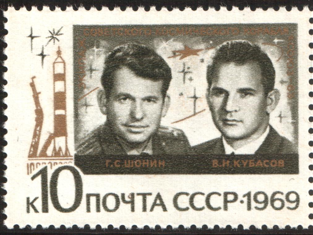 USSR stampː Georgi Shonin and Valeri Kubasov (Soyuz 6). Seriesː Triple Space Flights the Space Ships Soyuz 6 (11-16.10), Soyuz 7 (12-17.10) and Soyuz 8 (13-18.10)